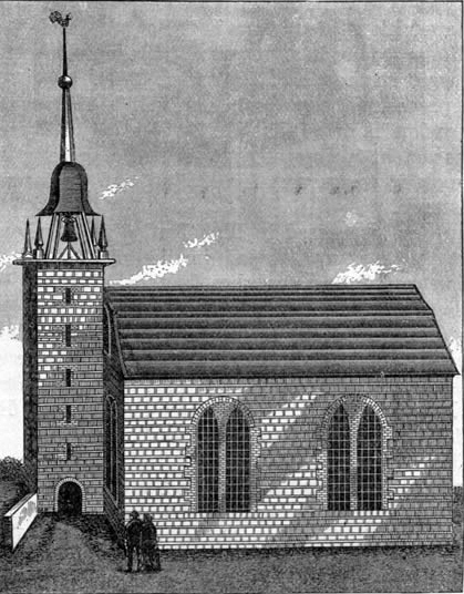 Print of original (1679–1752) Old Dutch Church building, Kingston, NY, USA